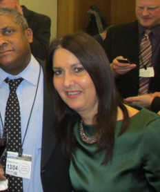 Paul Maskey with Guillermo Parera Lambert and Jorge Garcia from the Cuban Embassy and with Margaret Ferrier SNP MP